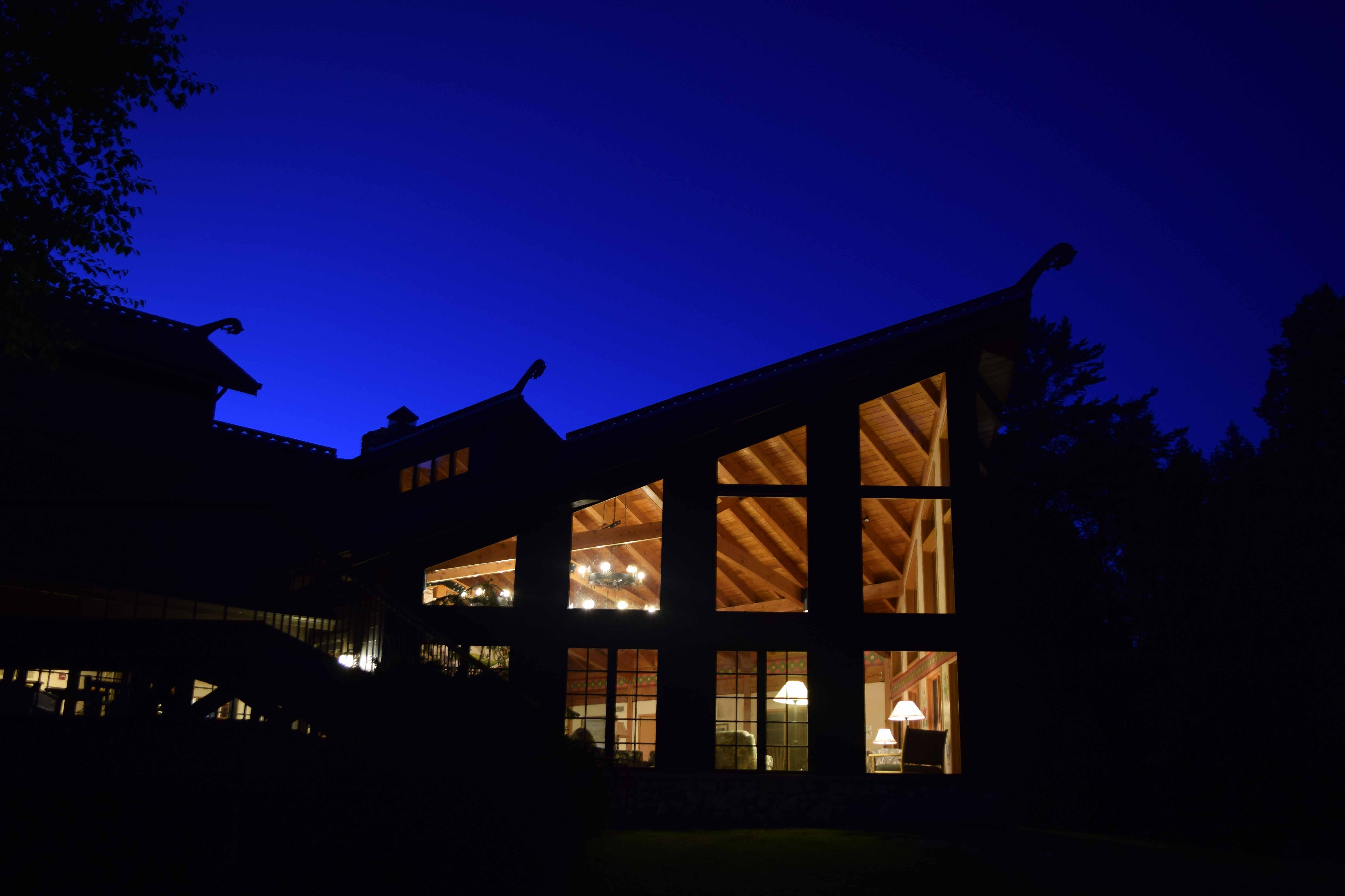 Night view of lodge - Great Hall